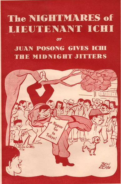 Published by U.S. Office of War Information (OWI) in Brisbane, Australia, for distribution in the Philippines Anti-Japanese propaganda comic book